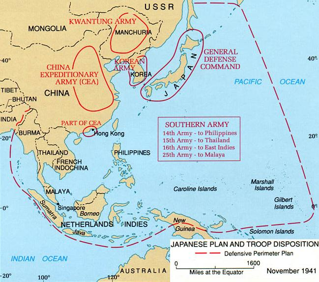 Map over Japanese plans and troop dispositions november 1941